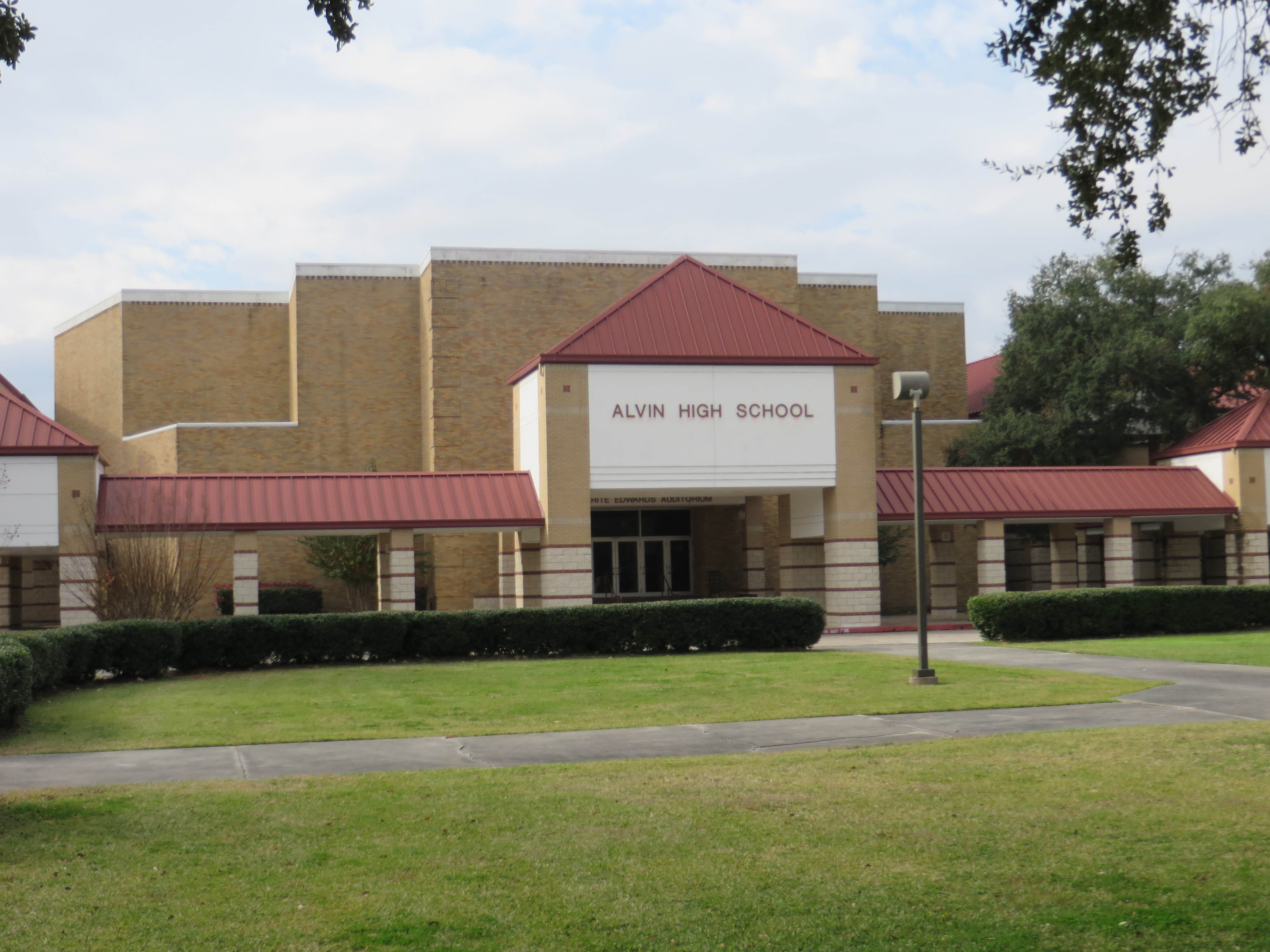 Alvin High School in Alvin, Texas. The school belongs to Alvin Independent School District.